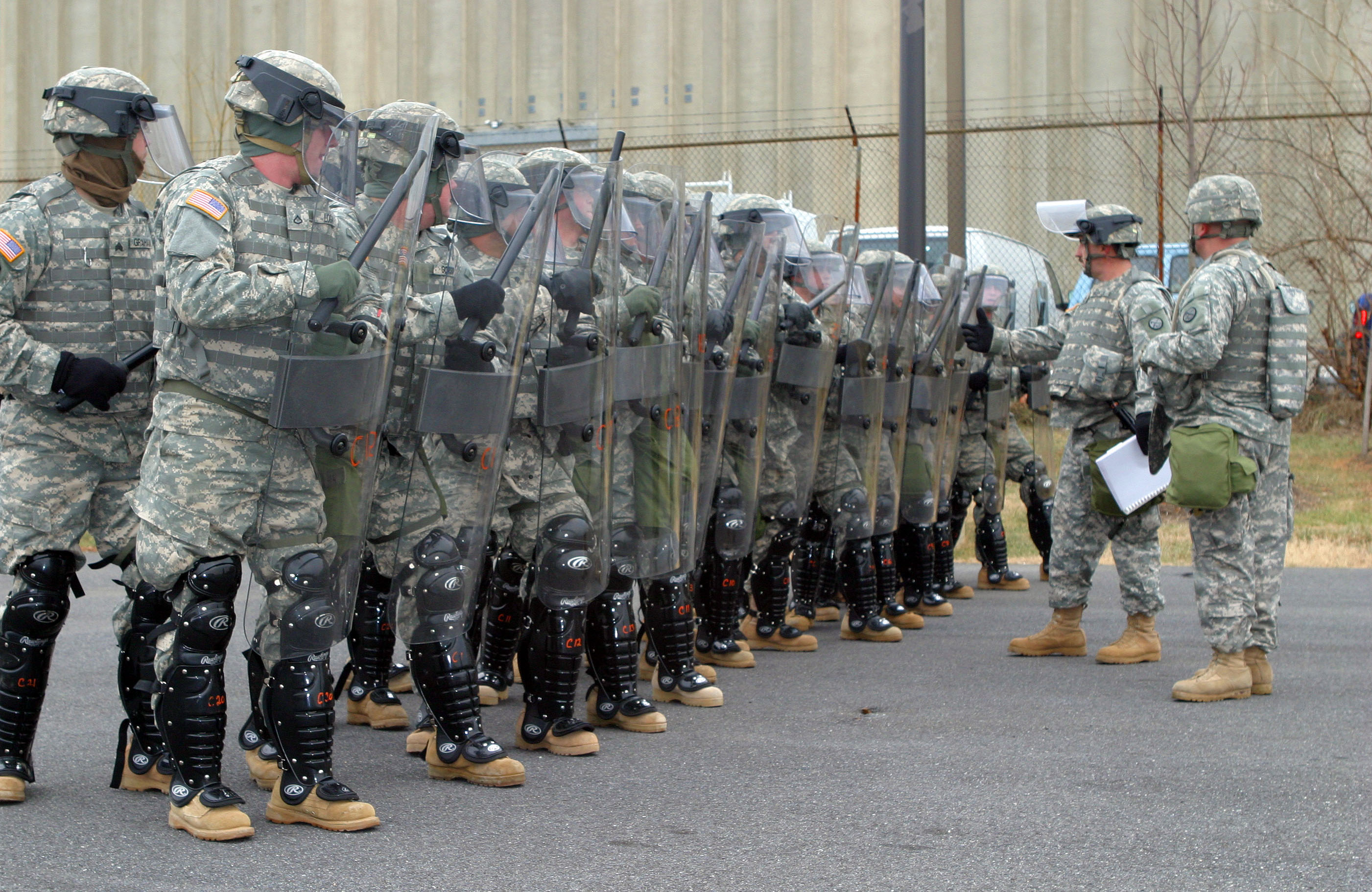 Soldiers in the West Virginia National Guard Quick Reaction Force train in Washington, D.C., prior to the 2009 Presidential inauguration. Soldiers were deployed to the nation's capital to support local law enforcement with traffic and crowd control and were prepared to respond to any type of civil disturbance. See more at Army.mil